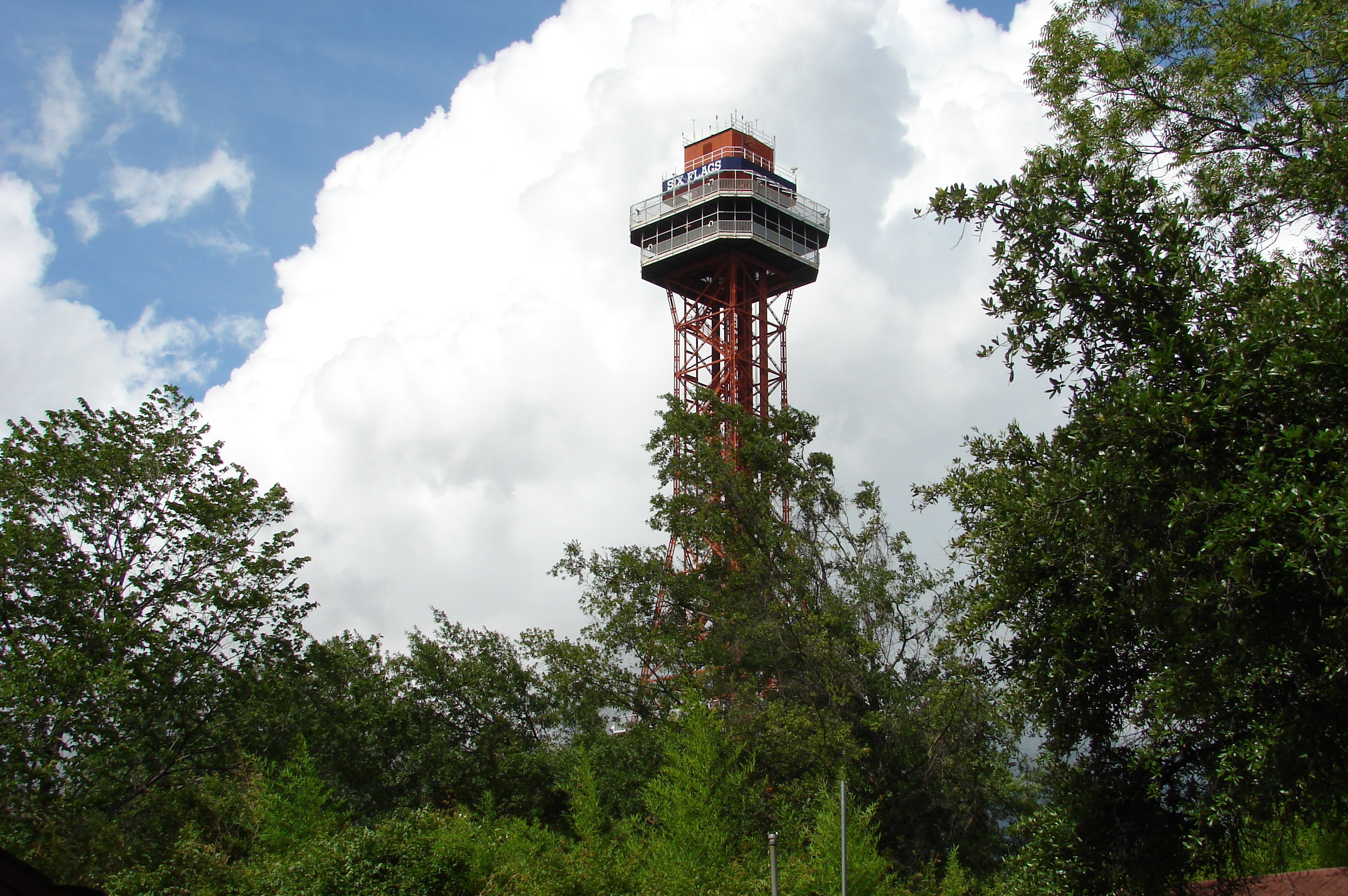 Oil derrick tower at Six Flags Over Texas in Arlington, Texas